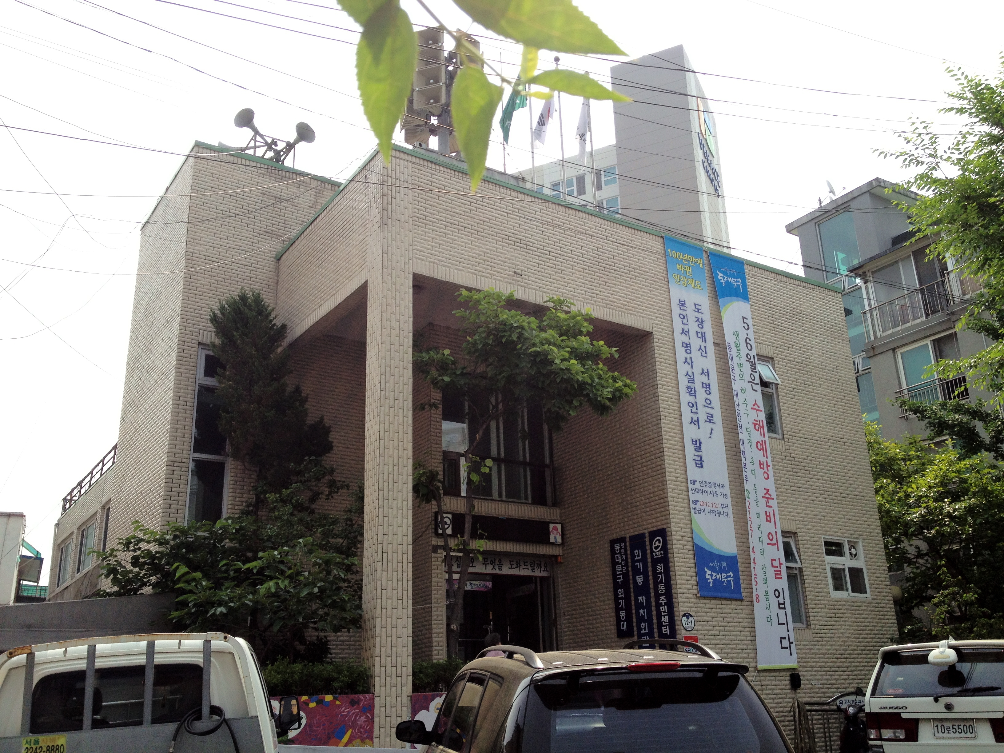 Hoegi-dong Comunity Service Center(Dongdaemun-gu)